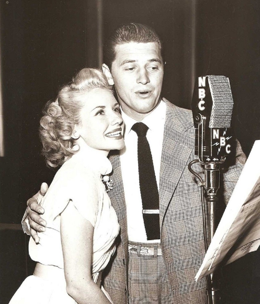 Lucille Norman & Gordon MacRae, publicity photo for NBC redio show "The Railroad Hour"